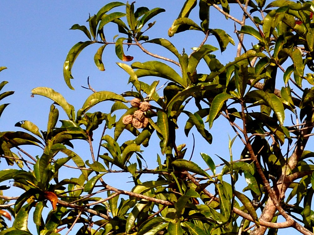 Gluta velutina branch with fruits; at the riverbank of Sambas Kecil River, West Kalimantan, Indonesia